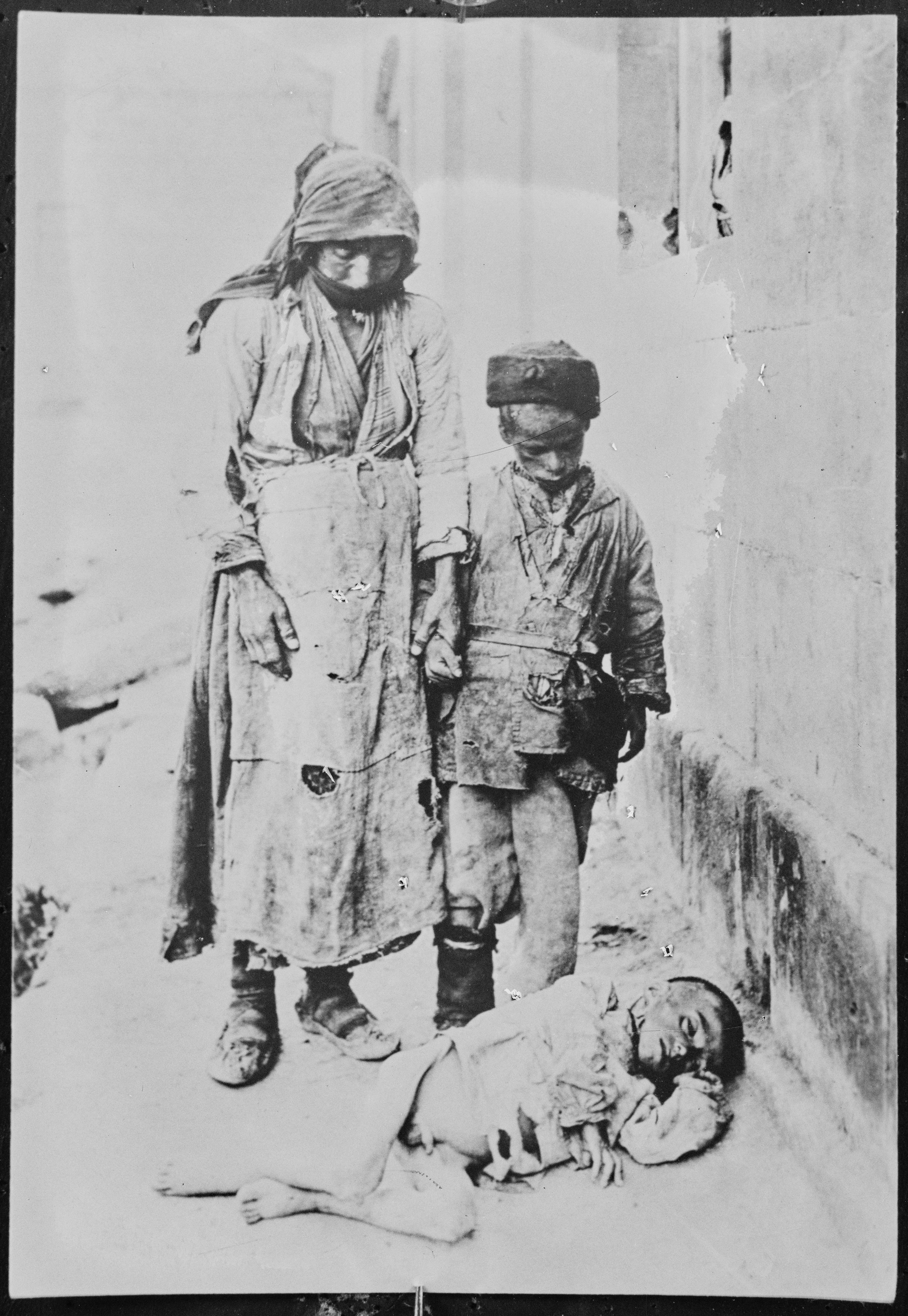 The photo has been retrieved from the National Archival Service of Norway. The photo is part of a series of reversal film photos from Bodil Biørn, a Norwegian missionary, humanitarian, nurse and midwife. She was engaged in humanitarian work in Armenia and Syria, amongst other places, through the association Kvinnelige Misjonsarbeidere.